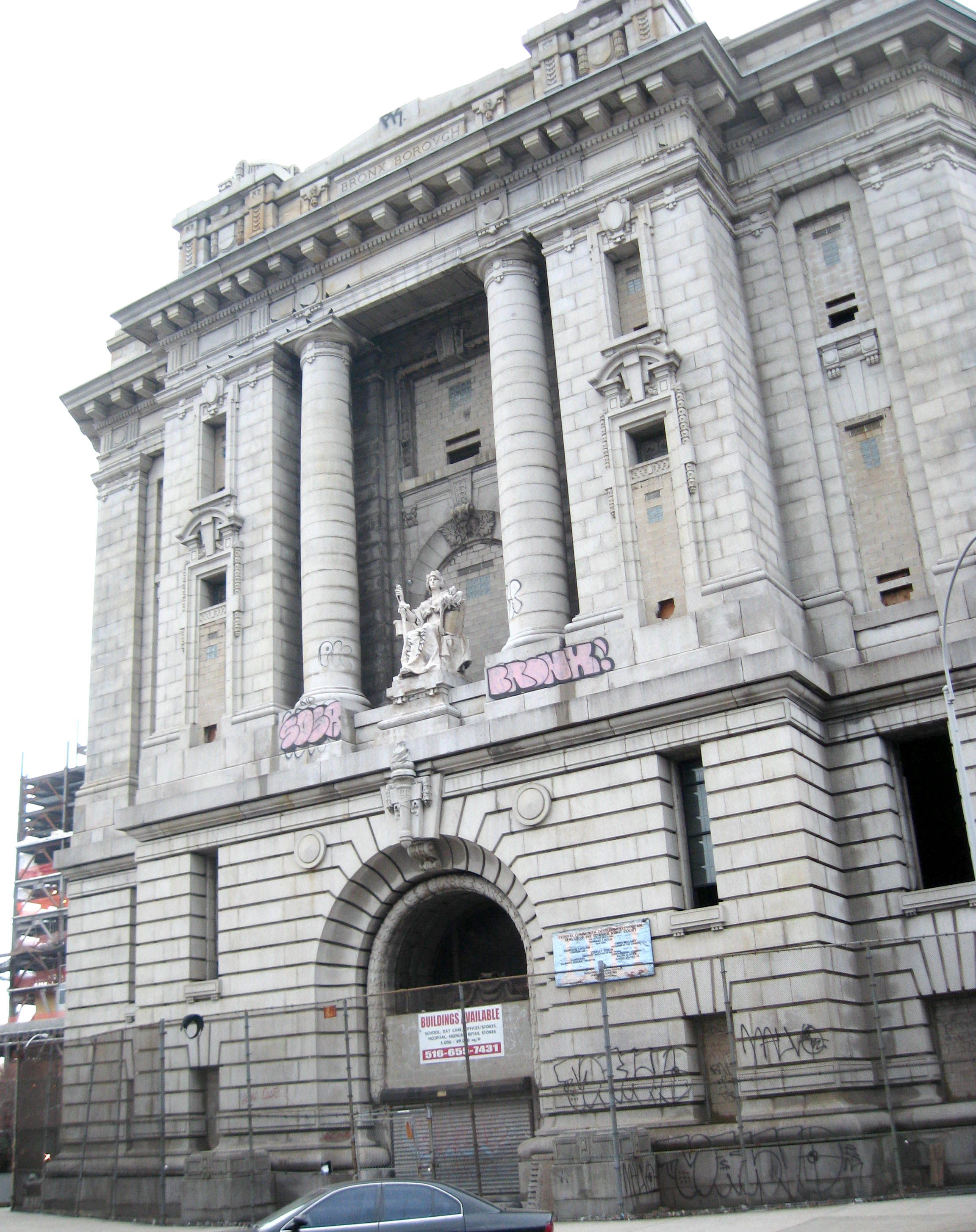 Looking northwest and up from Third Avenue at Bronx Boro Court House on a cloudy afternoon. See also File:Bronx Boro Court SW jeh.JPG.